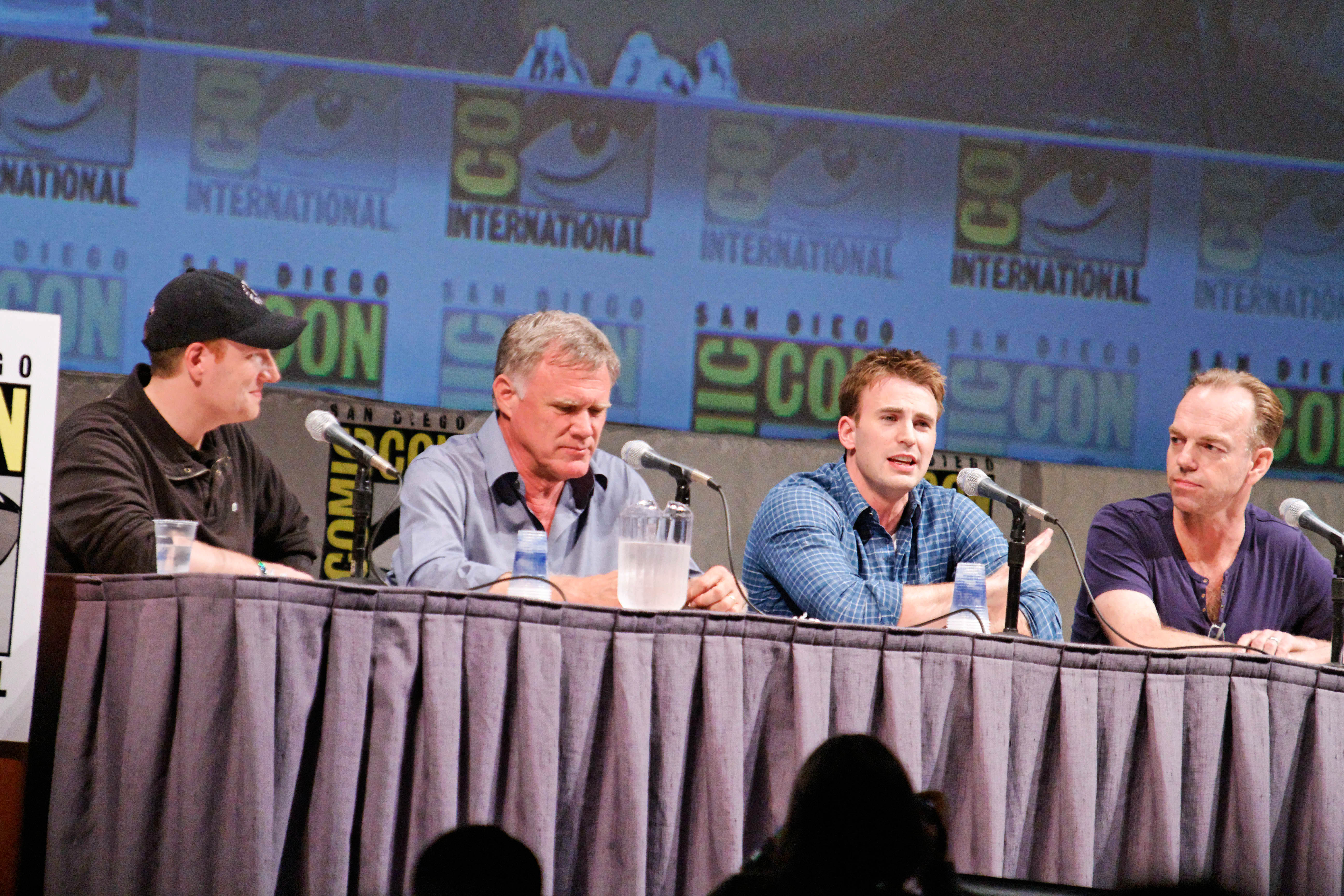 Captain America: The First Avenger panel from the 2010 San Deigo Comic-Con International with Kevin Feige, Joe Johnston, Chris Evans and Hugo Weaving